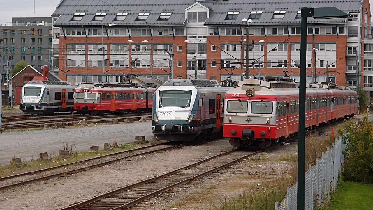 Norwegian State Railways Class 69 (red) and Class 72 (green) trains at Drammen Station